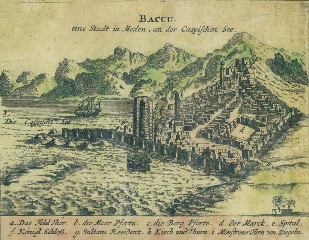 Gravure "Baccu. eine Stadt in Meden, an der Caspischen See"